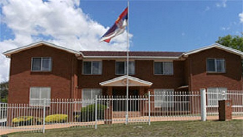 Embassy of The Republic of Serbia in CanberraСрпски (ћирилица): Амбасада Републике Србије у Канбери